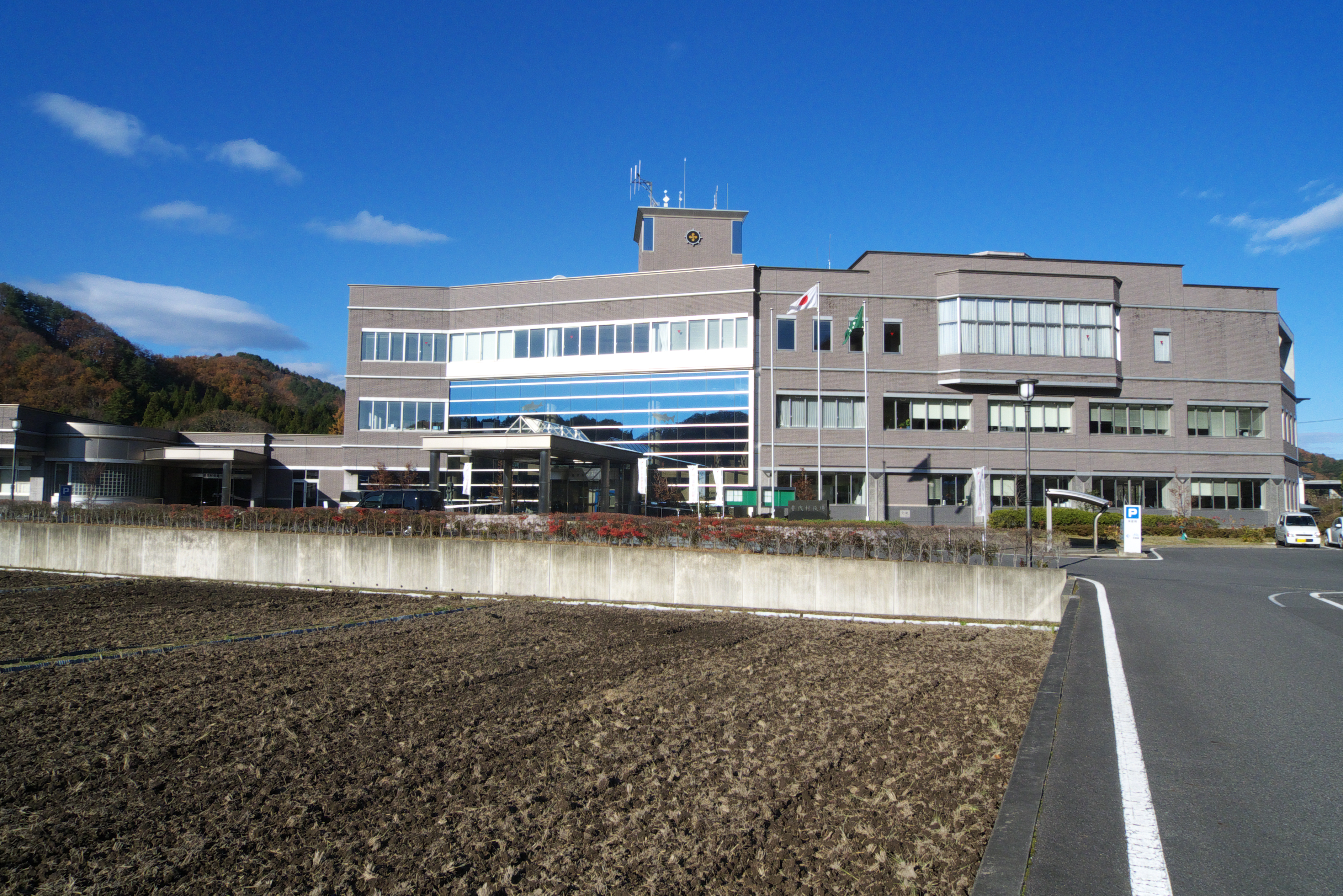 Office of Fudai Village, Iwate Prefecture, Japan